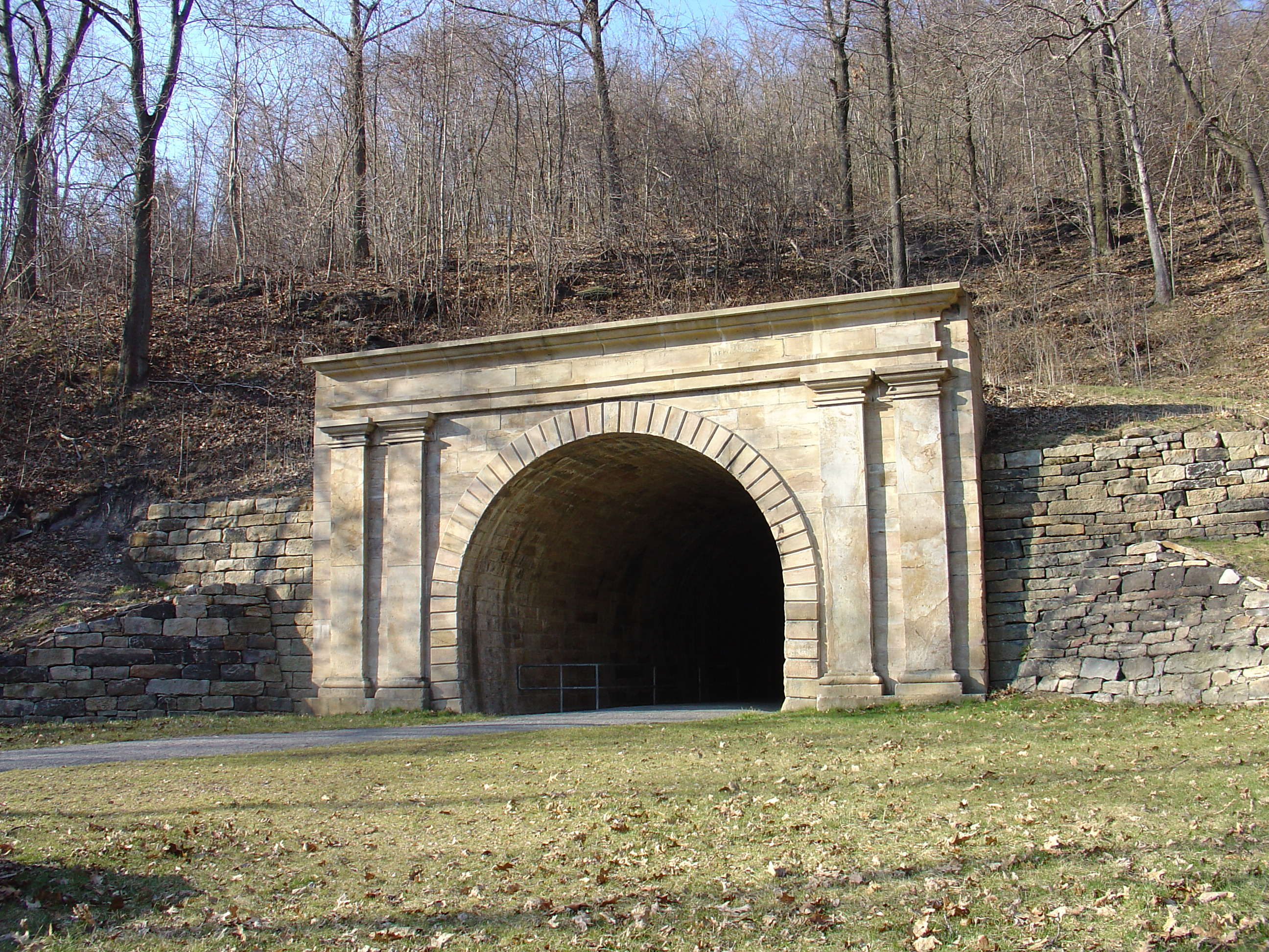 Western Portal of the Staple Bend Tunnel